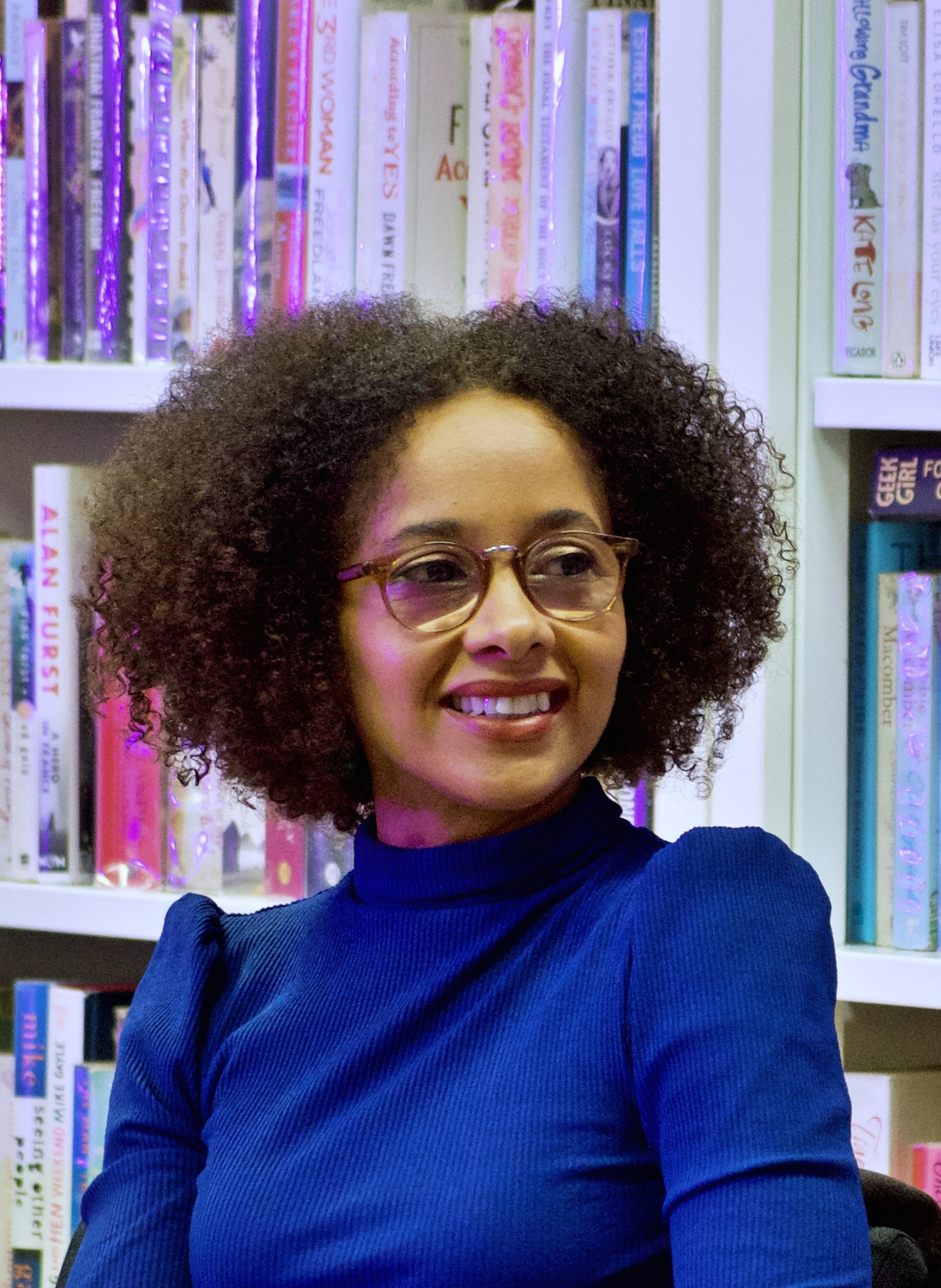 Diana Evans at an event at Brixton Library, Wednesday 13 November, 2019